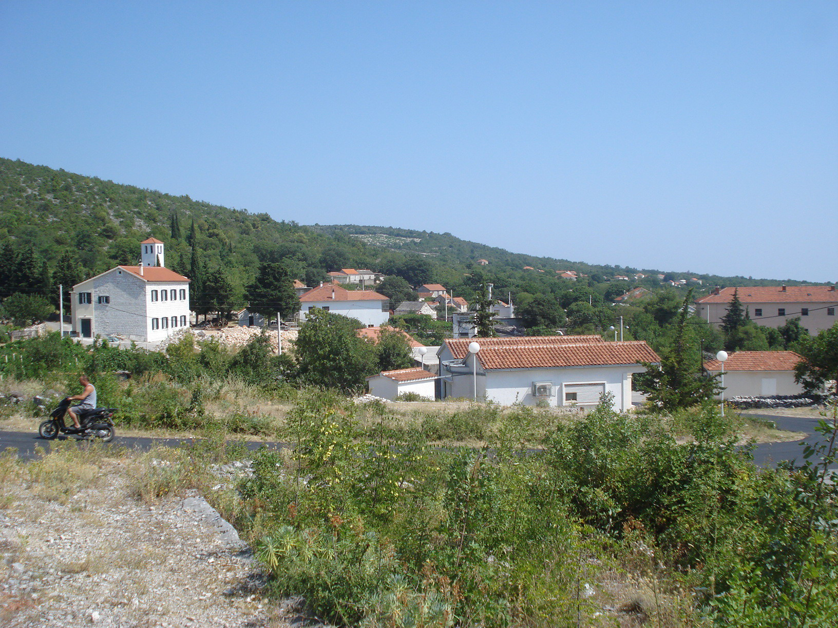 Blizna (Croatia) - village in hinterland of Trogir, Split-Dalmatia County - place of battle of Bliska in 1322